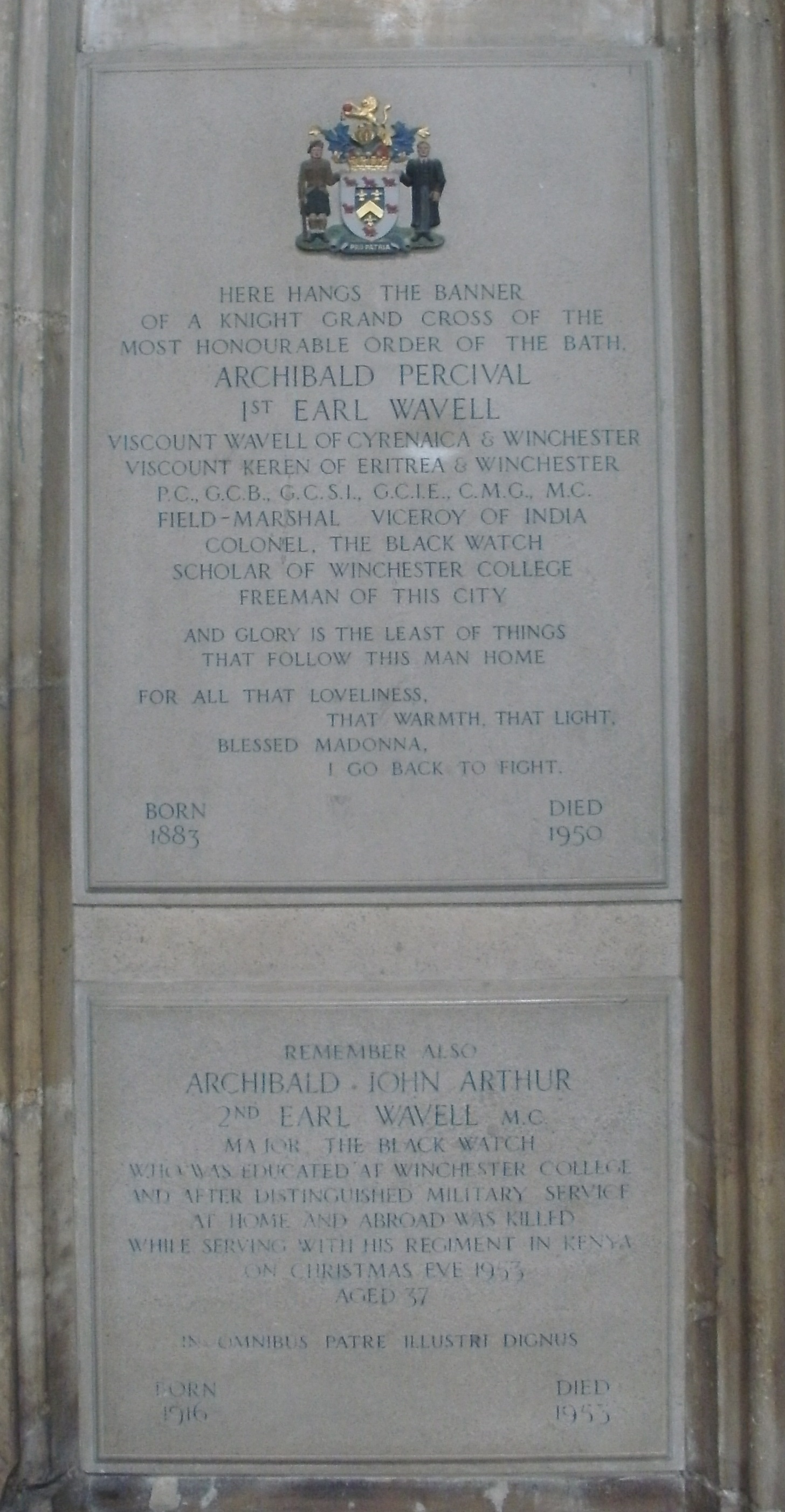 Winchester Cathedral, memorial plaques for Field Marshal Lord Wavell, 1st Earl Wavell (died 1950) and his son, the 2nd Earl Wavell (died 1953). Location: North wall of the Nave.